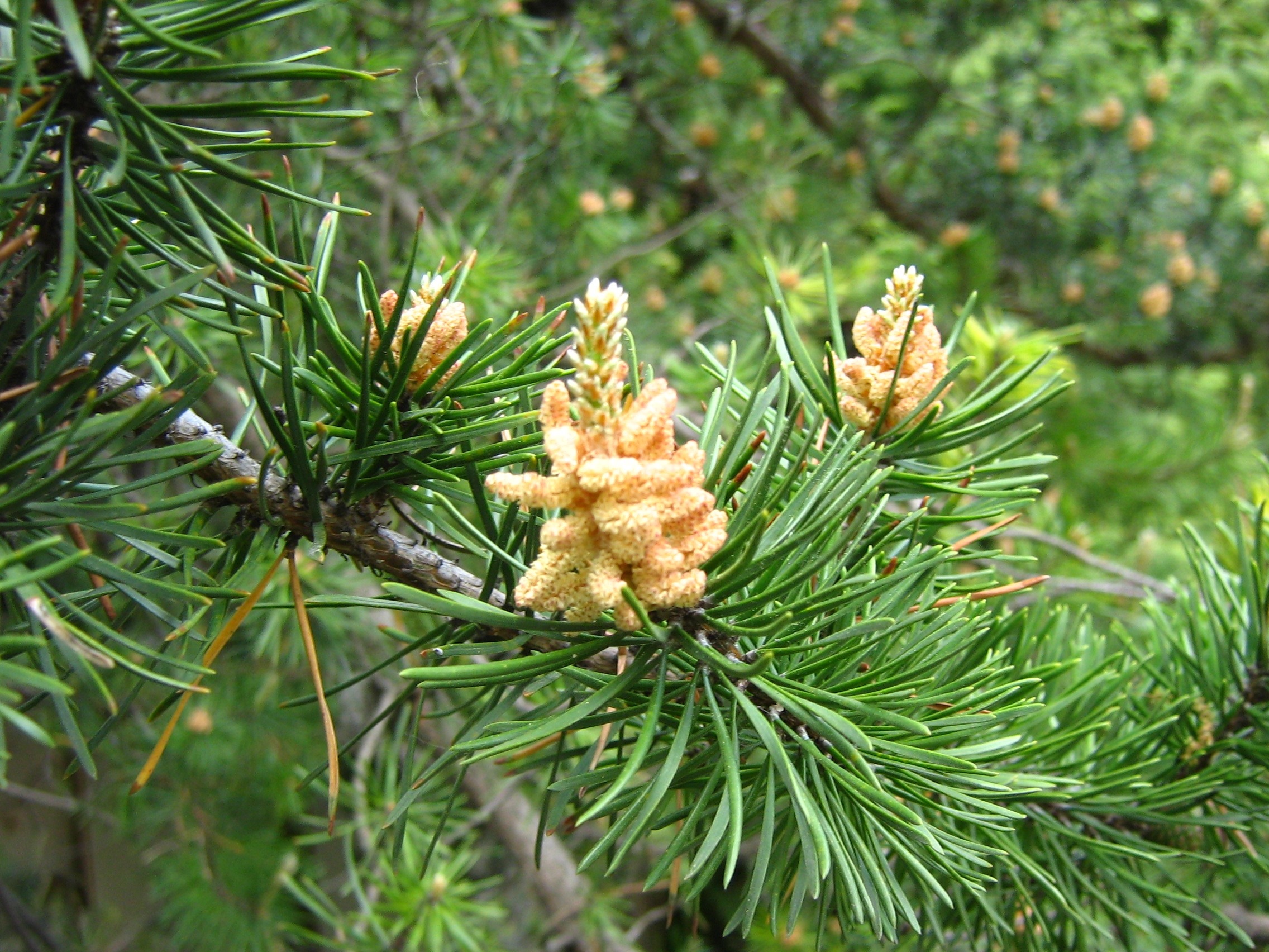 Jack pine (Pinus banksiana) male inflorescence. Warsaw University Botanical Garden.